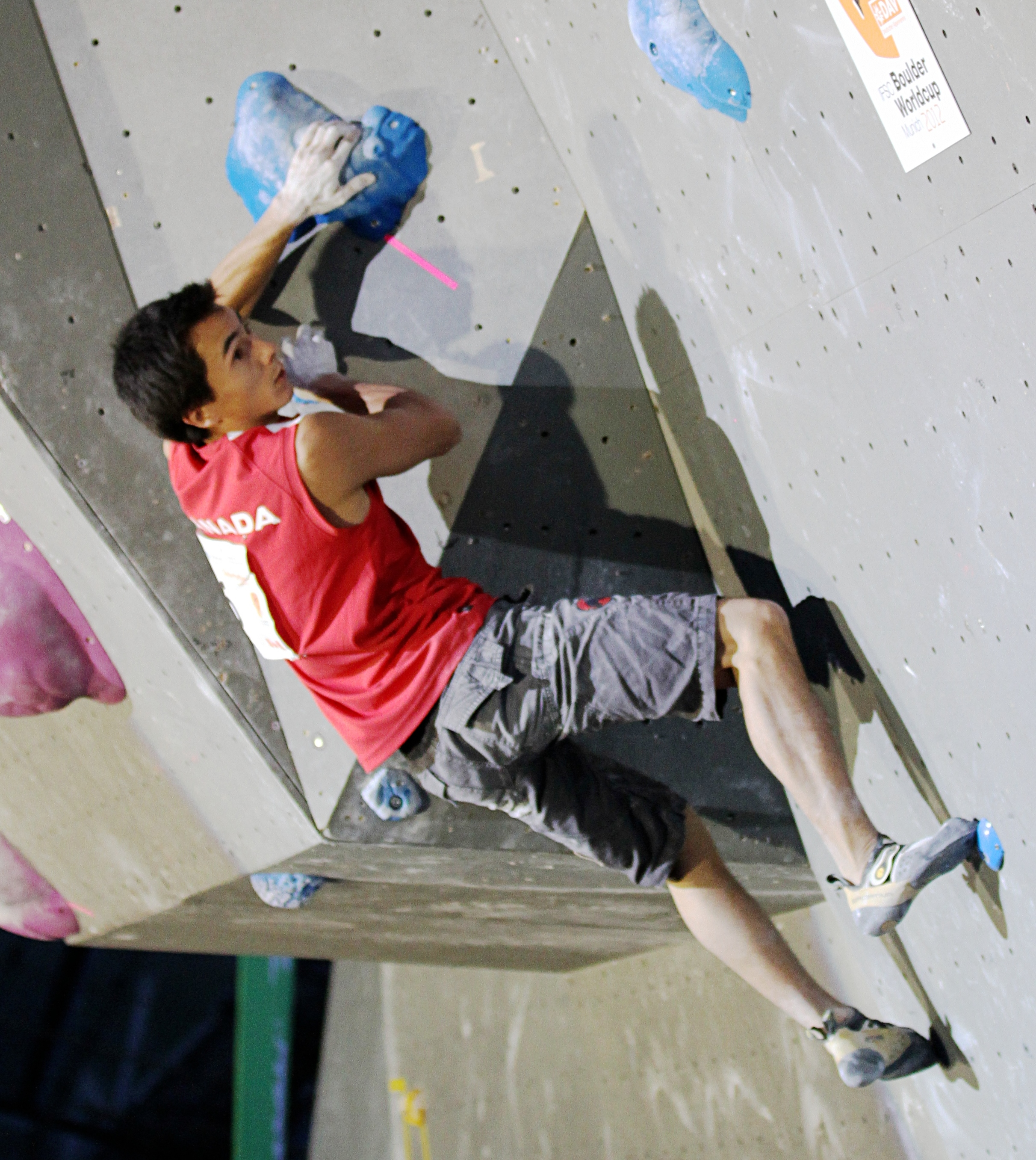 Sean McColl, CAN